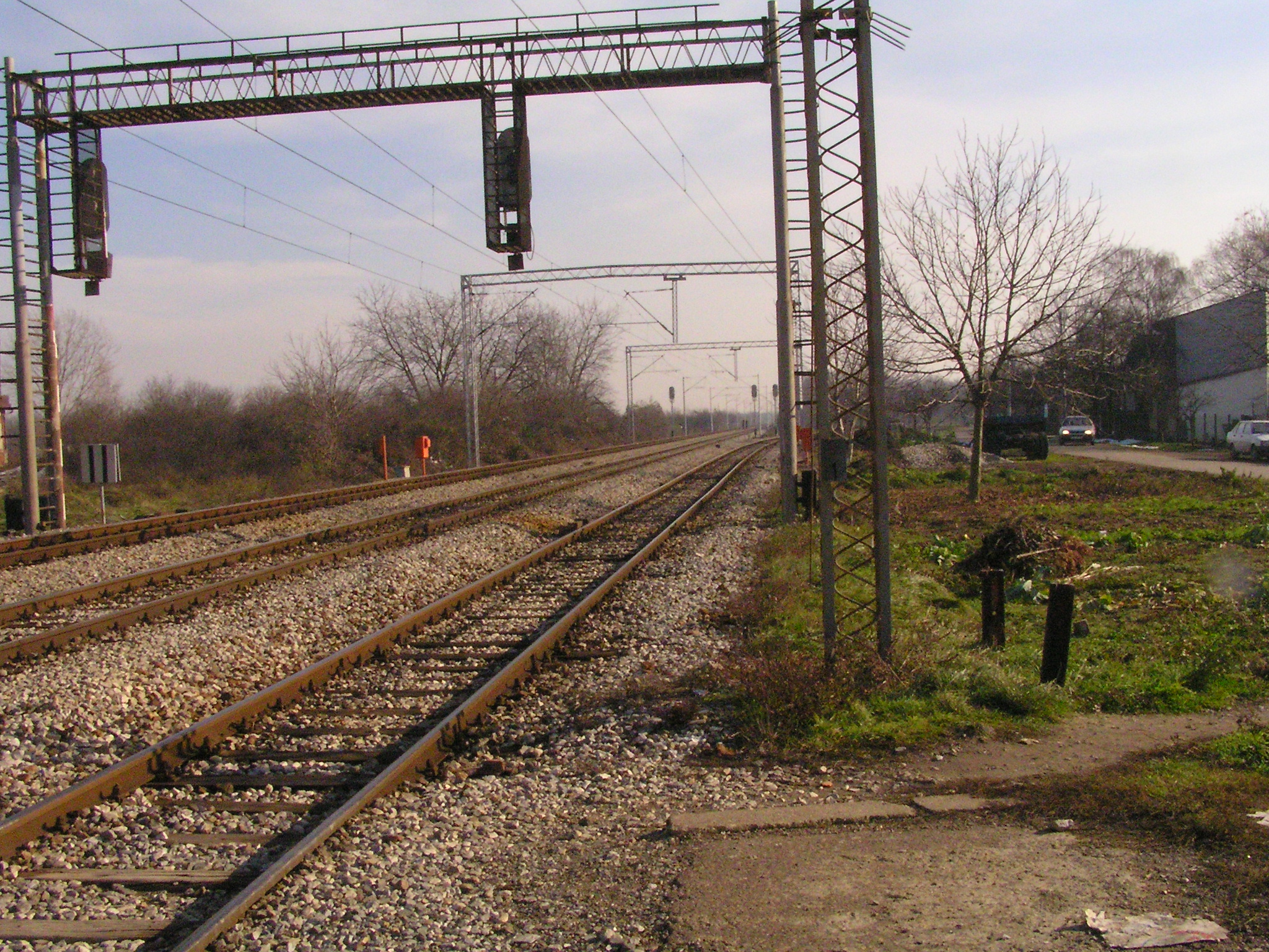 Koridor 10 towards east, left is track to the railway line towards Županja and Brčko